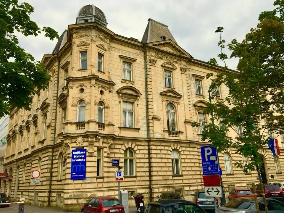 Central headquarters of Matica Hrvatska, in Zagreb.